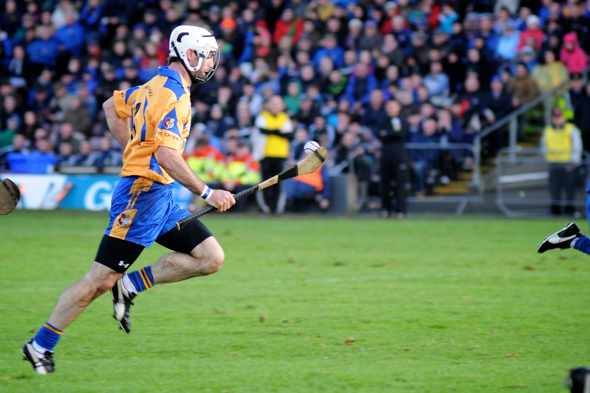 Leo Smith of Portumna in action in the 2013 Galway Senior Hurling Championship final against Loughrea in Pearse Stadium, Galway